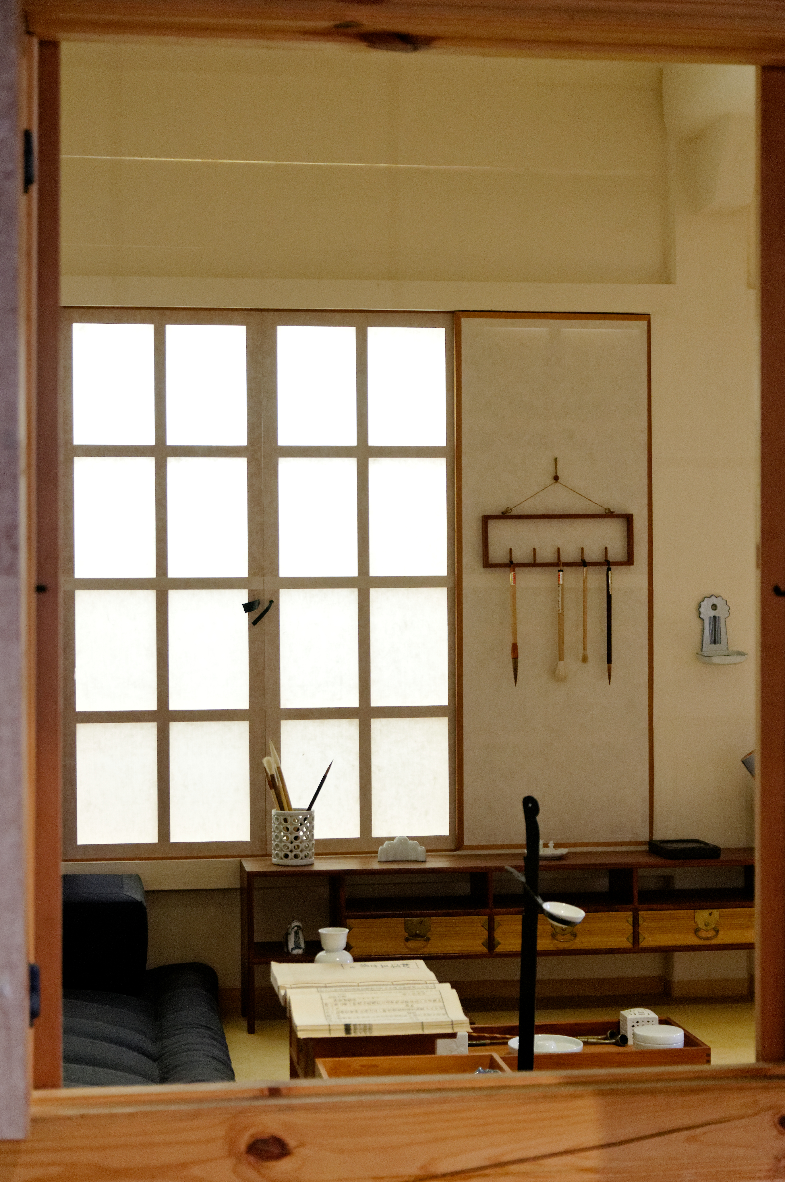 Reconstruction of a traditional Korean sarangbang (scholar's study)